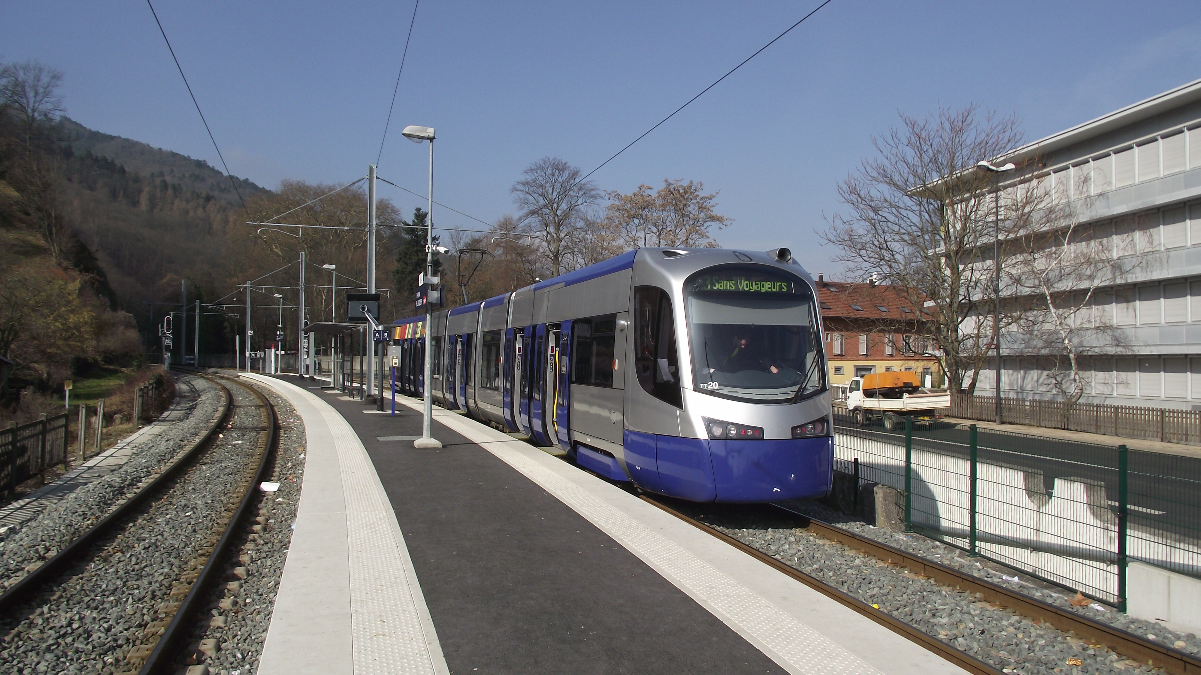 Endpoint of the Tramtrain in Thann.